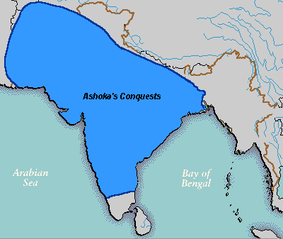 Ashoka extended into the kingdom of Kalinga during the Kalinga War.